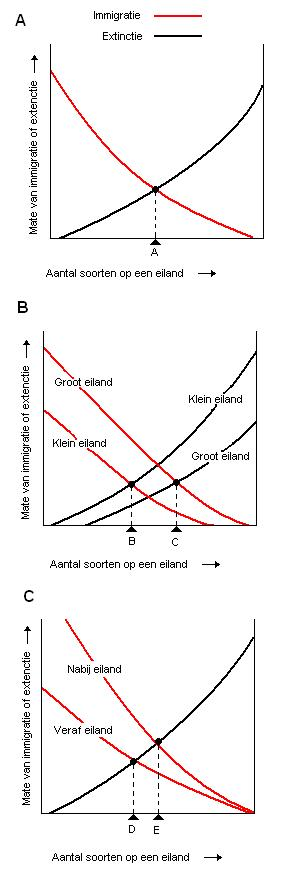 This file is a depection that exemplifies the theory of biogeography as developed by MacArthur and Wilson.